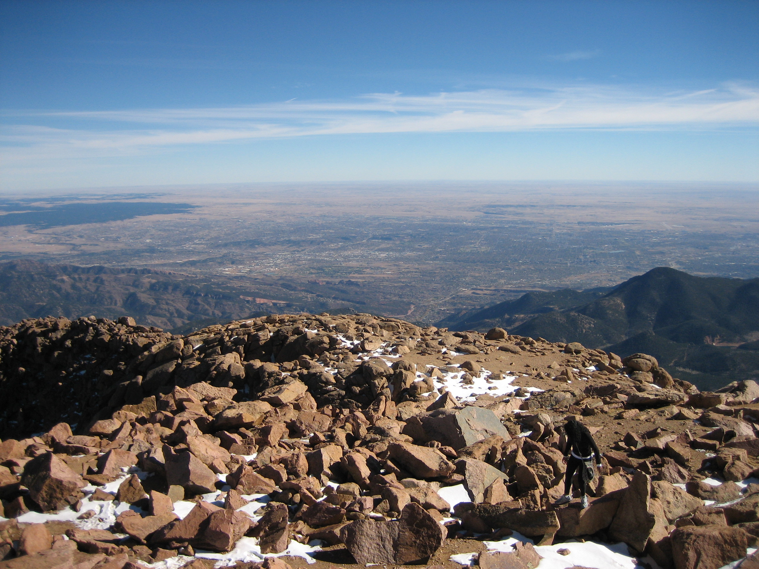 The city of Colorado Springs, viewed from the summit of Pikes Peak.